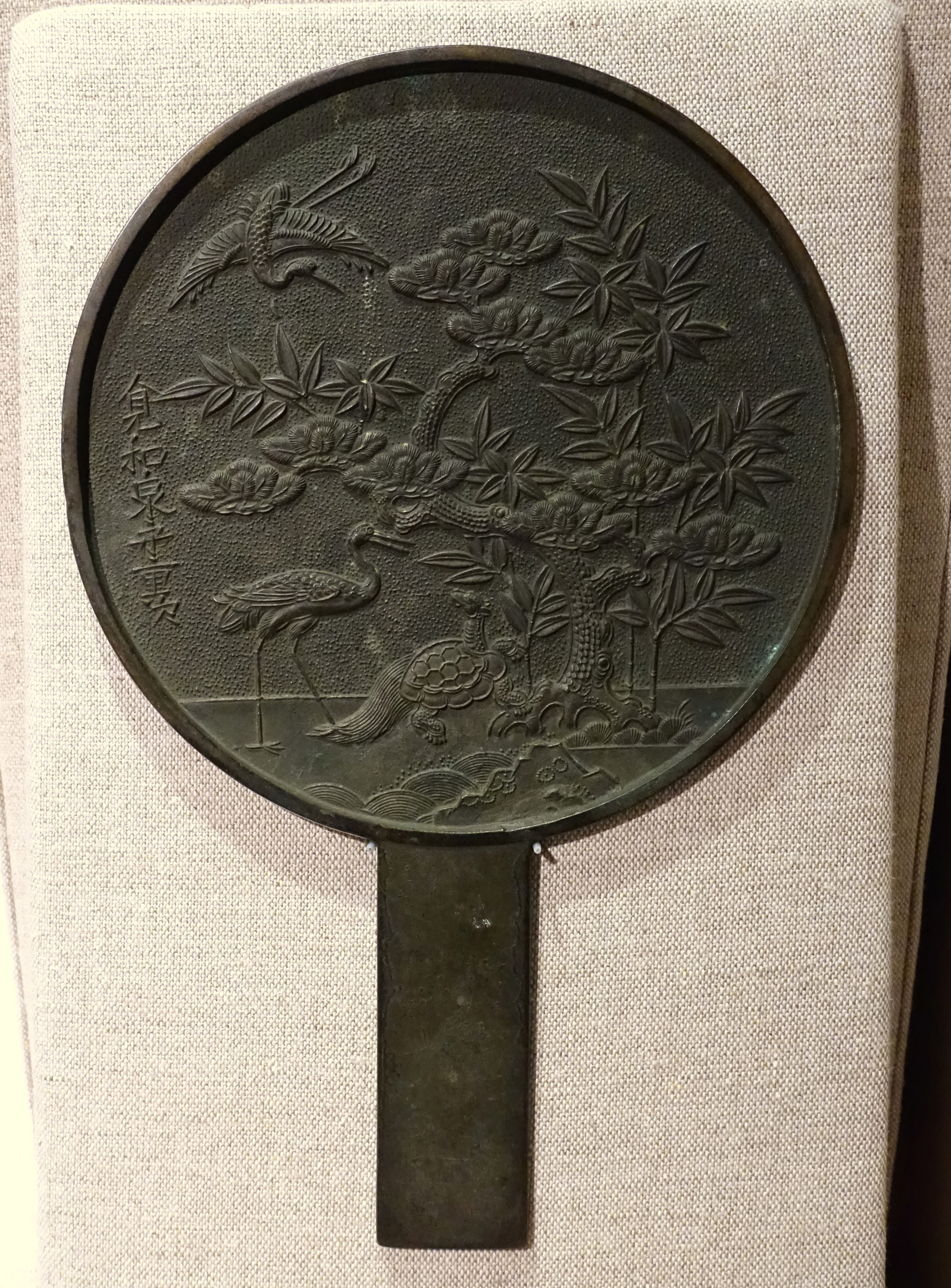 Exhibit in the Spurlock Museum, University of Illinois at Urbana-Champaign - Urbana-Champaign, Illinois, USA. This work is old enough so that it is in the public domain.